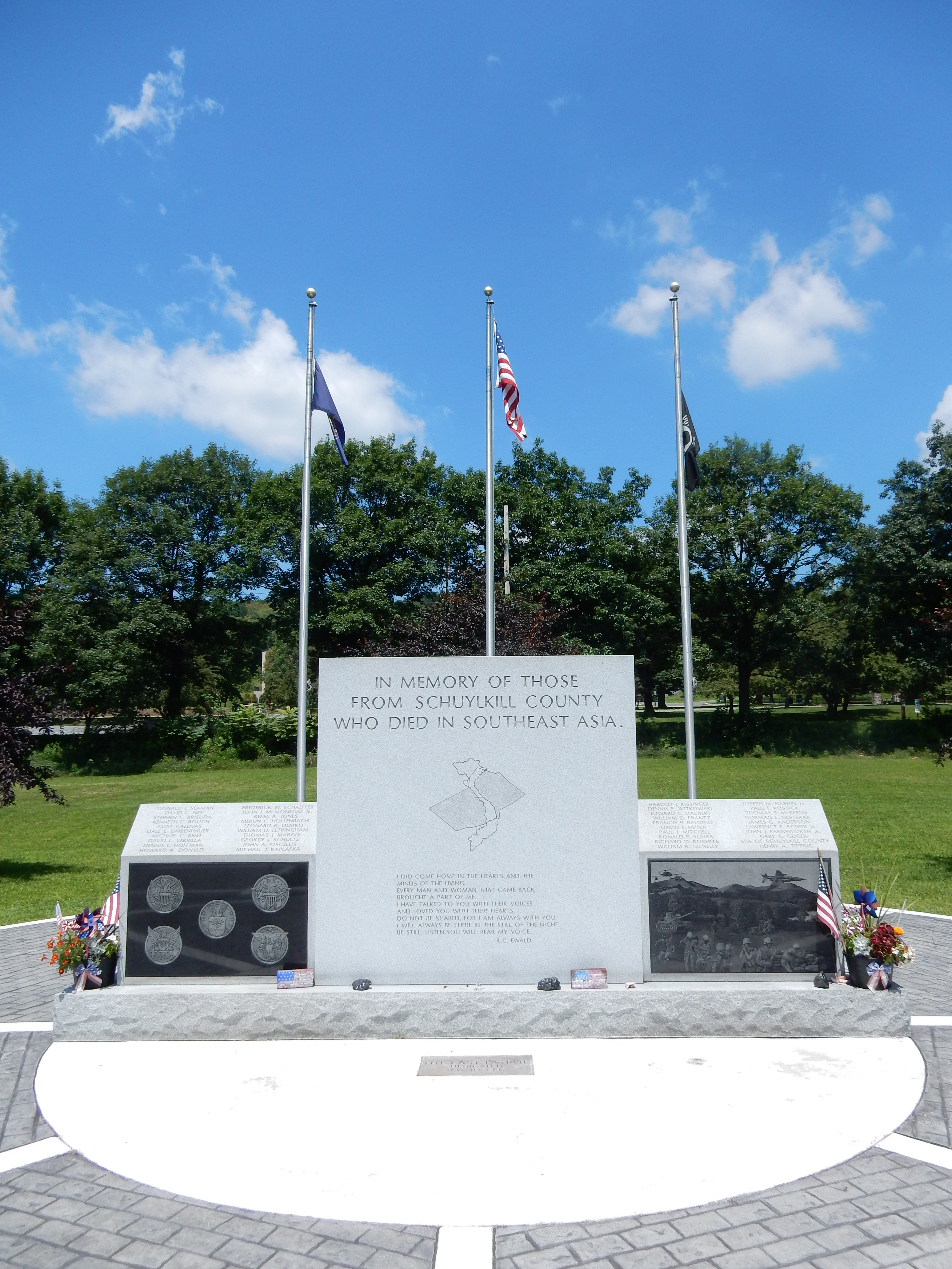 'In memory of those of Schuylkill County who died in Southeast Asia'. Schuylkill Vietnam War Memorial. North Manheim Township, Schuylkill County, Pennsylvania.